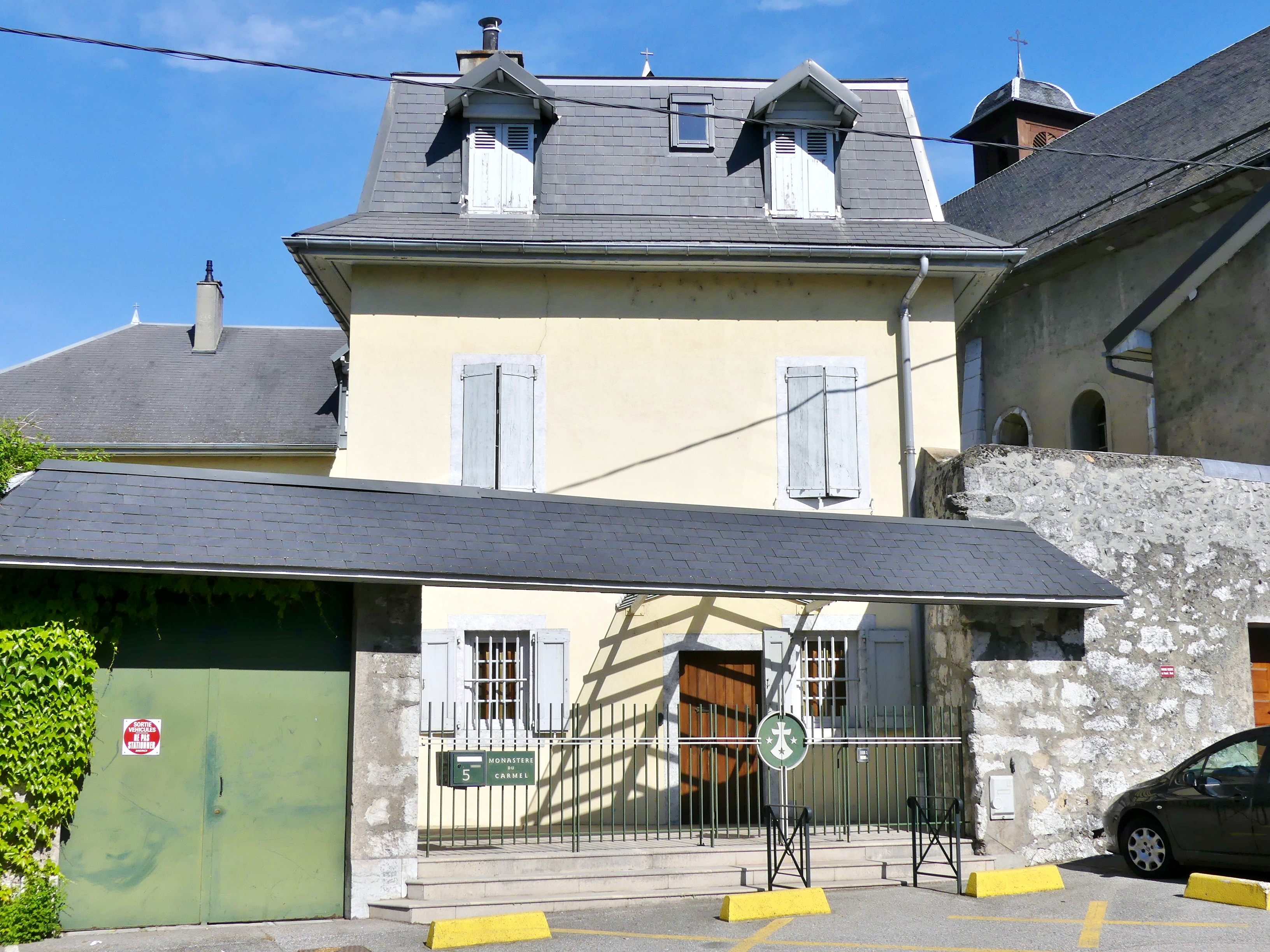 Sight of the old Maison forte de Lémenc building, which became the receiving hall of the Carmel monastery from 1832 to its closure in 2017, in Chambéry, Savoie, France.